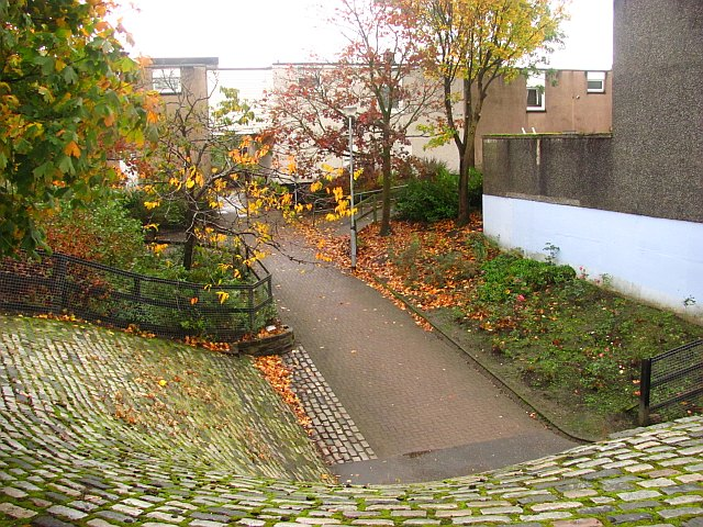 Glenhove to Torbrex underpass